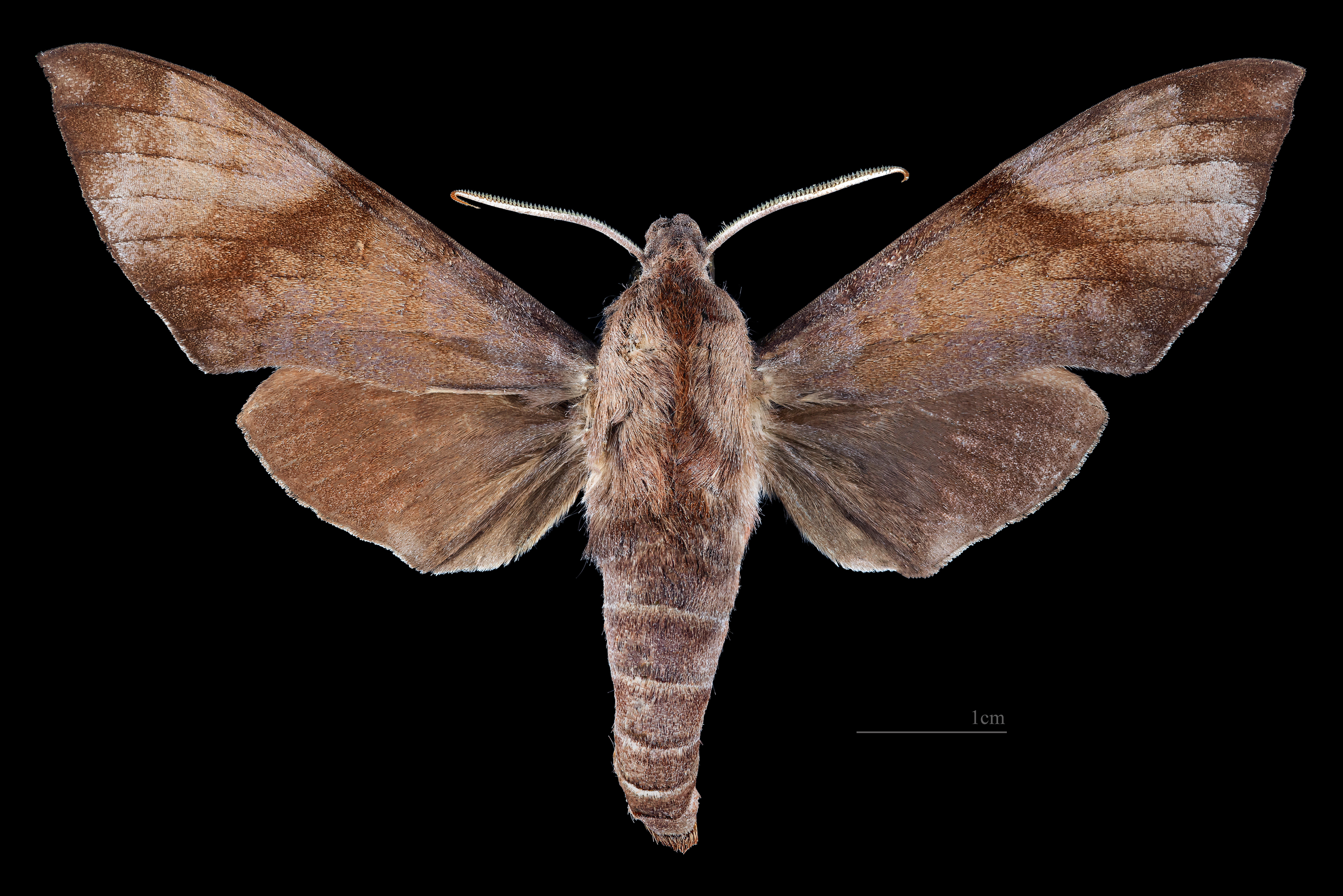 Acosmeryx formosana - Dorsal side Collection of the Mathematician Laurent Schwartz